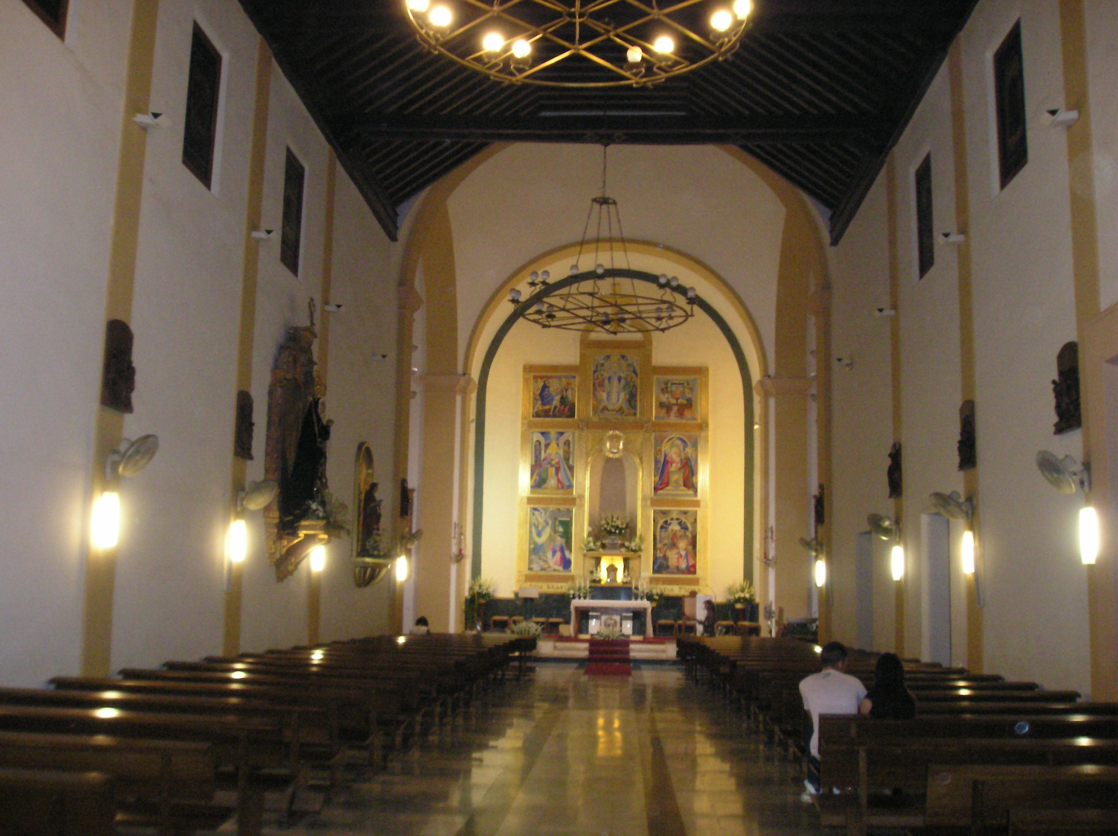 Iglesia de Ntra. Sra. del Rosario por dentro.